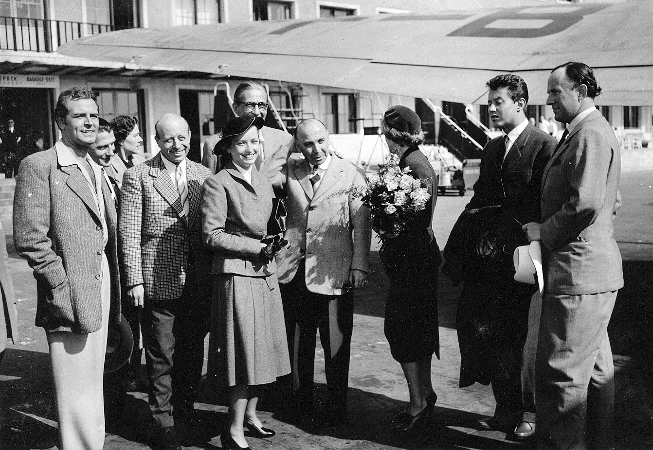 Munich Airport Riem, part of the filming and production team of Verträumte Tage (German version) and L'Aiguille rouge (French version) On the picture: Otto Wilhelm Fischer, Aglaja Schmid, Michèle Philippe, Michel Auclair, Axel von Ambesser, producer Fritz Fuhrmann [Germany], producer Paul Edmond [France], Emil-Edwin Reinert.